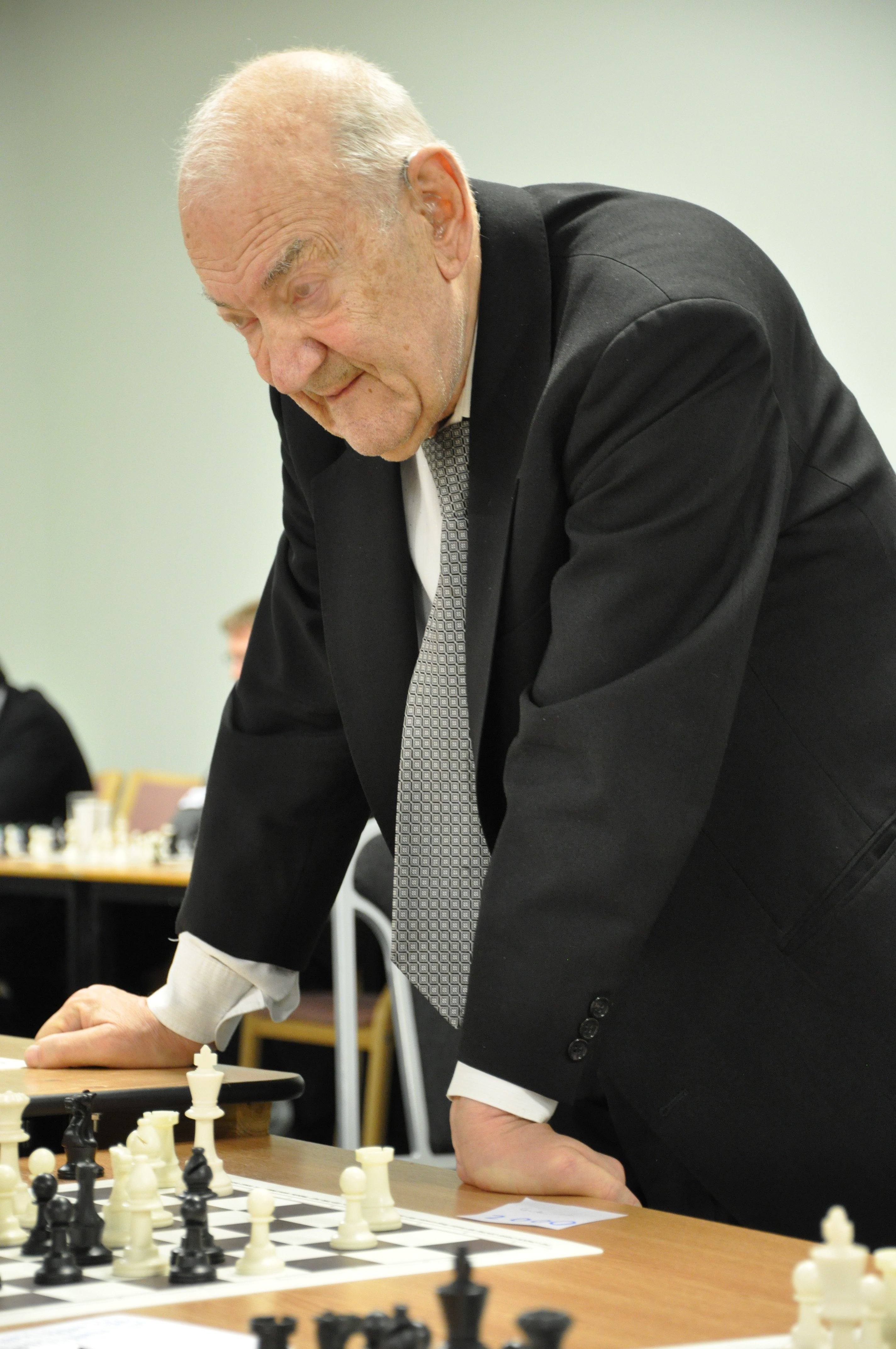 Viktor Korchnoi - London Chess Classic 2010